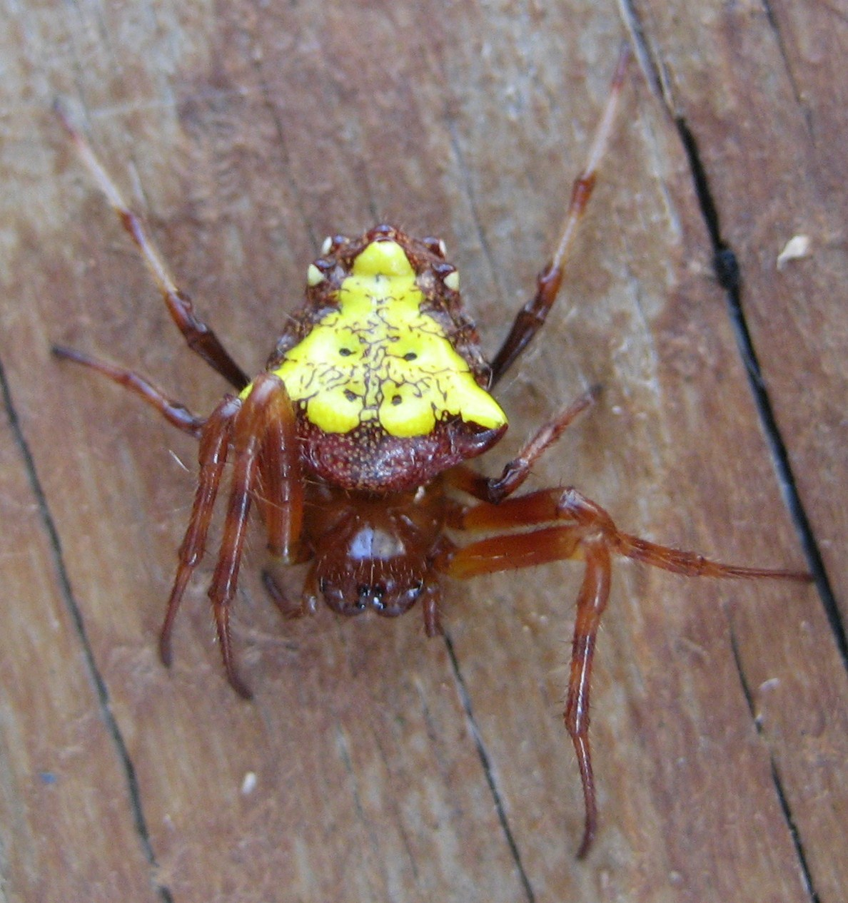 A yellow Verrucosa arenata. Also known as Arrowhead Spider.